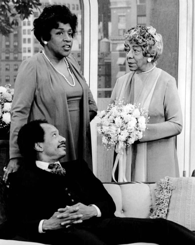 Photo of Sherman Hemsley (George Jefferson), Isabel Sanford (Louise Jefferson) and Zara Cully (George's mother, Mother Jefferson) from the television program The Jeffersons.